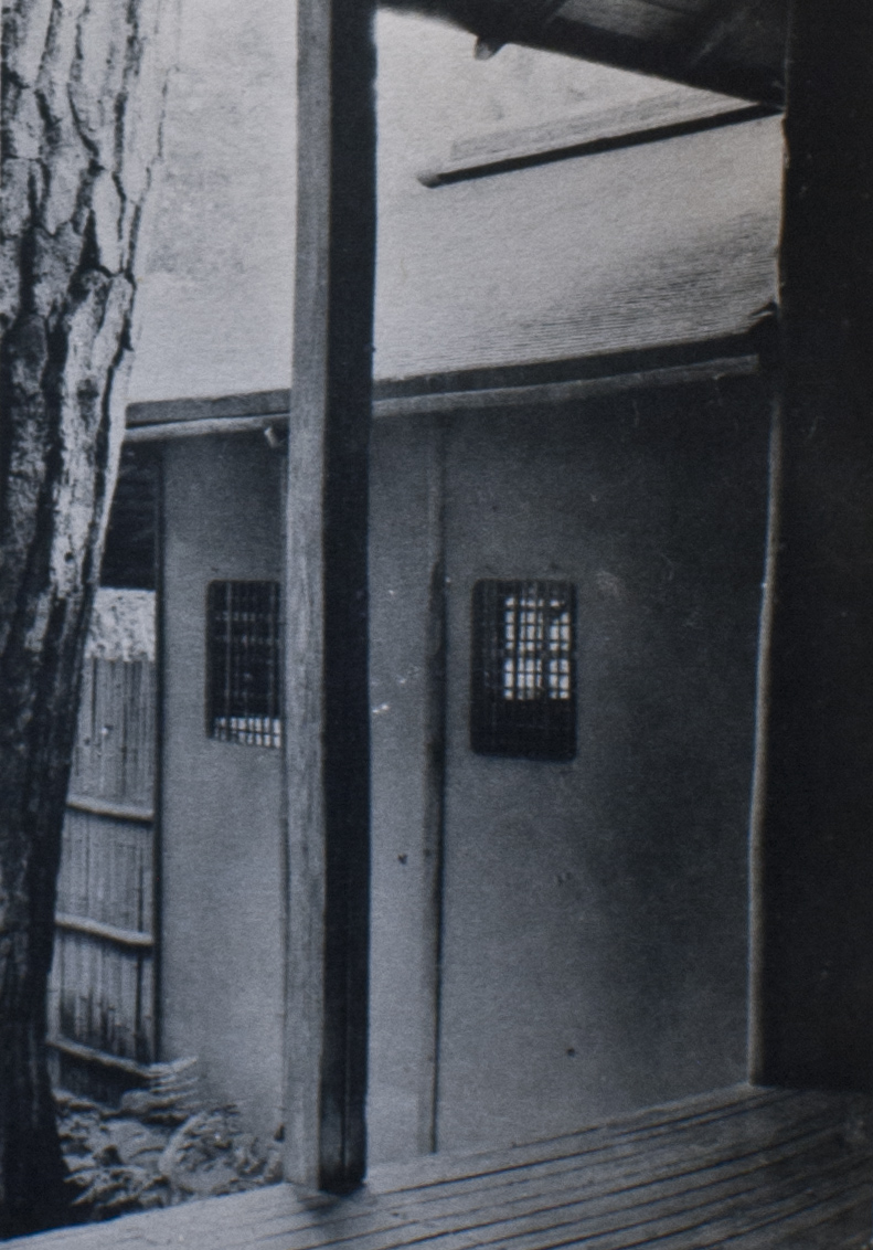 Tai-an chashitsu in Myokian, Kyoto, Japan